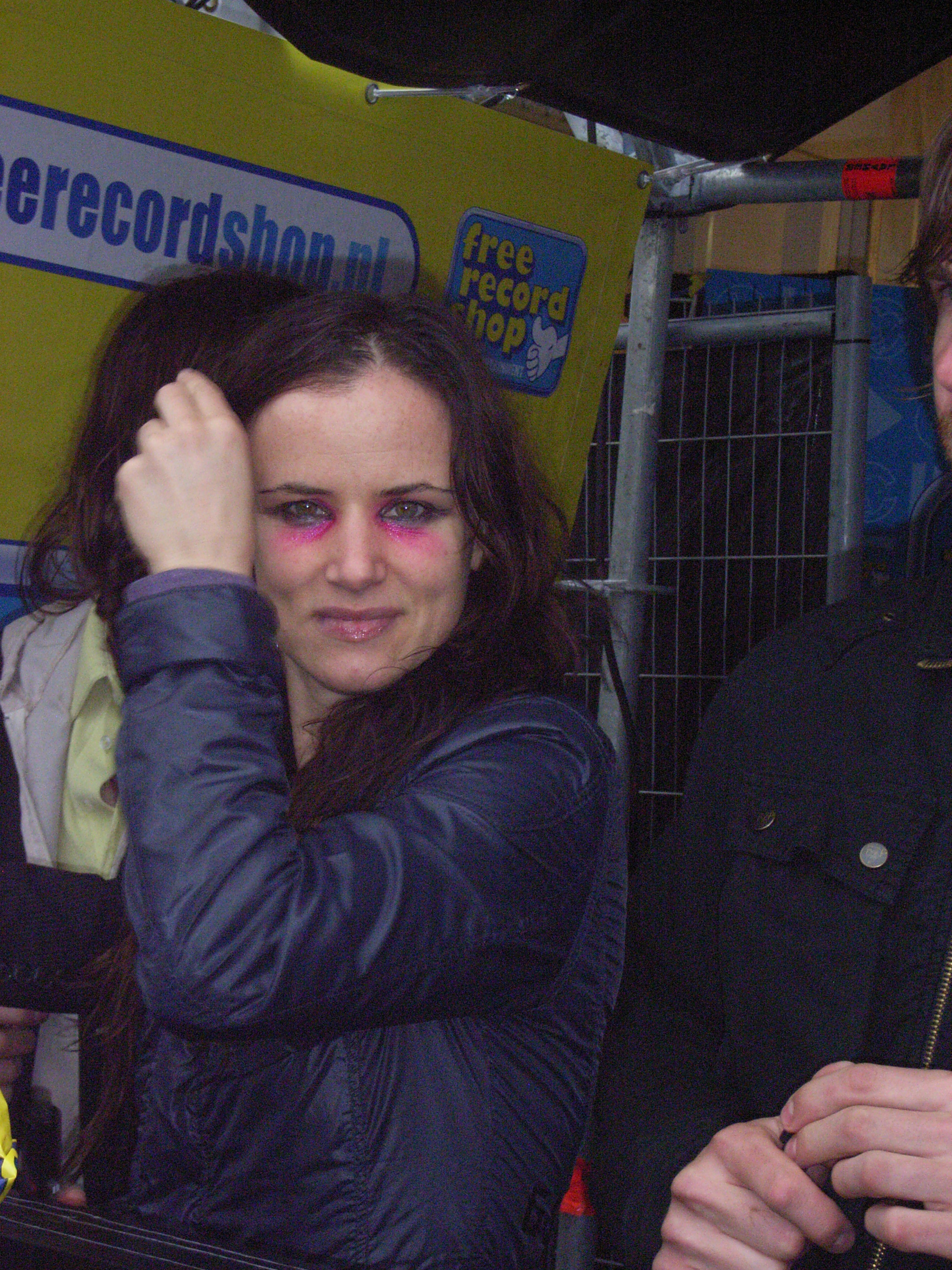 Juliette L. Lewis (1973) is an Oscar-nominated American actress and musician. Photo taken at Pinkpop 2007, Landgraaf, the Netherlands